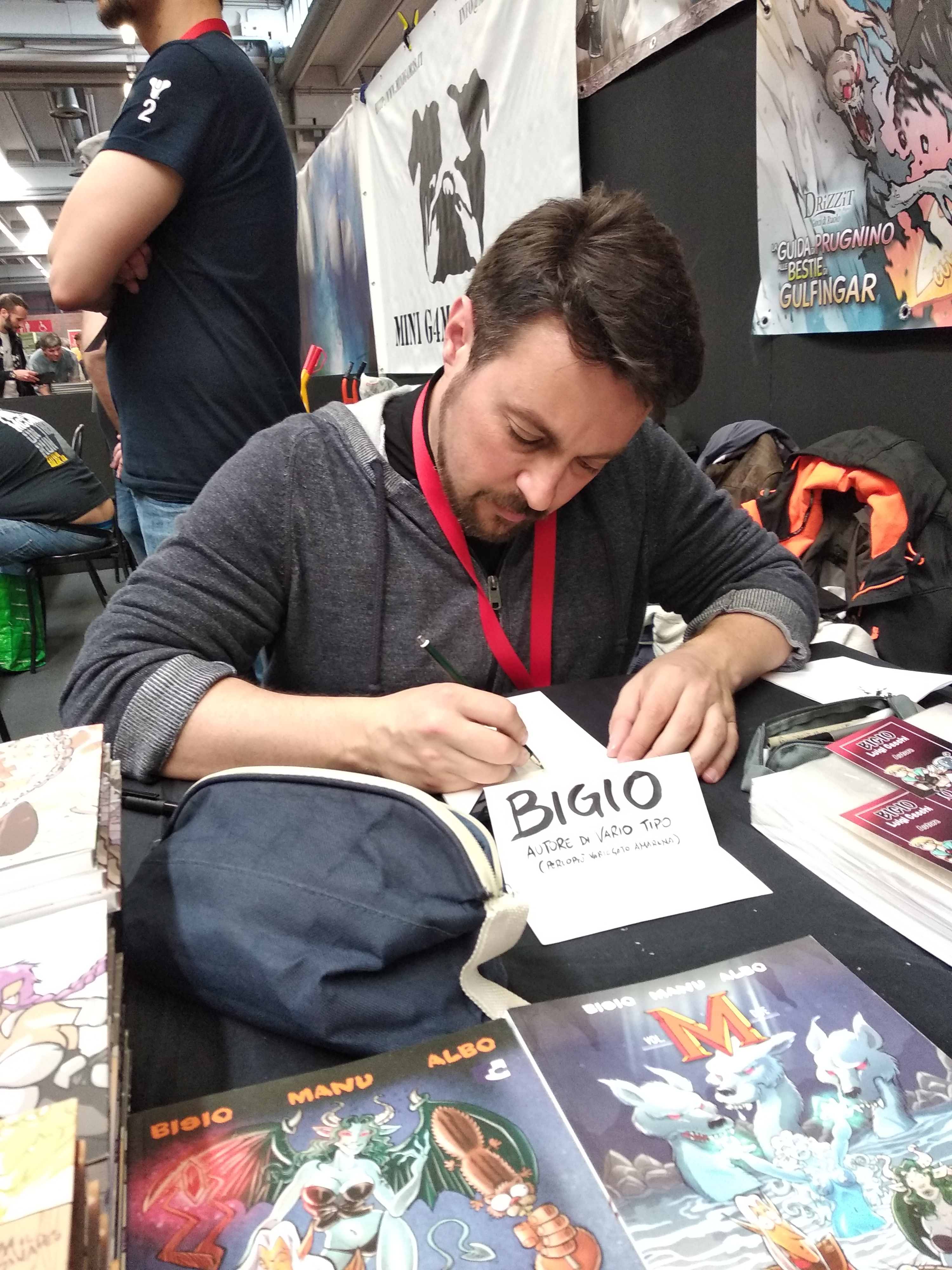 Luigi "Bigio" Cecchi al PLAY: The Games Festival drawing one of his characters.